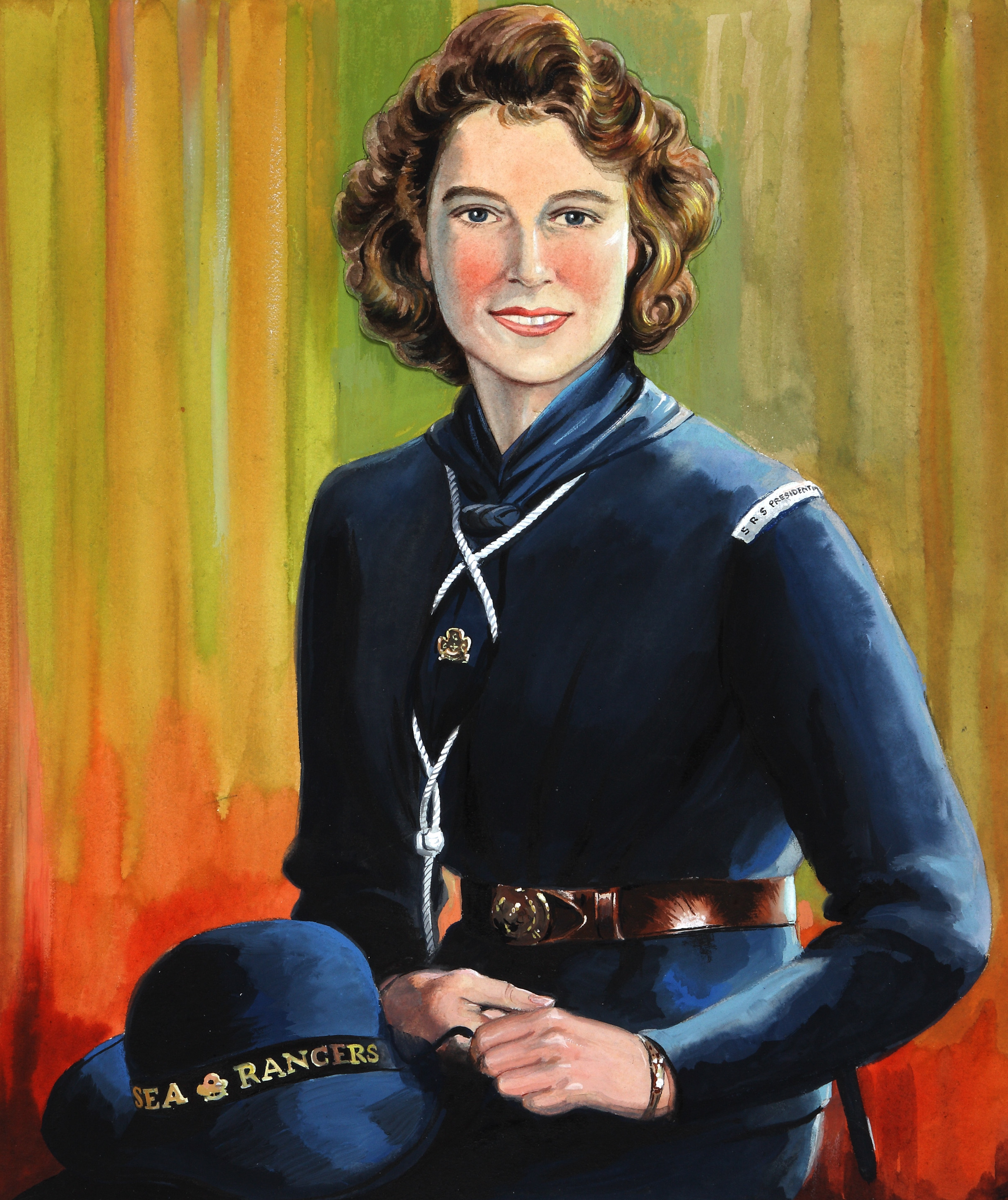 HRH Princess Elizabeth in uniform of Sea Rangers Depicted person: Elizabeth II of the United Kingdom